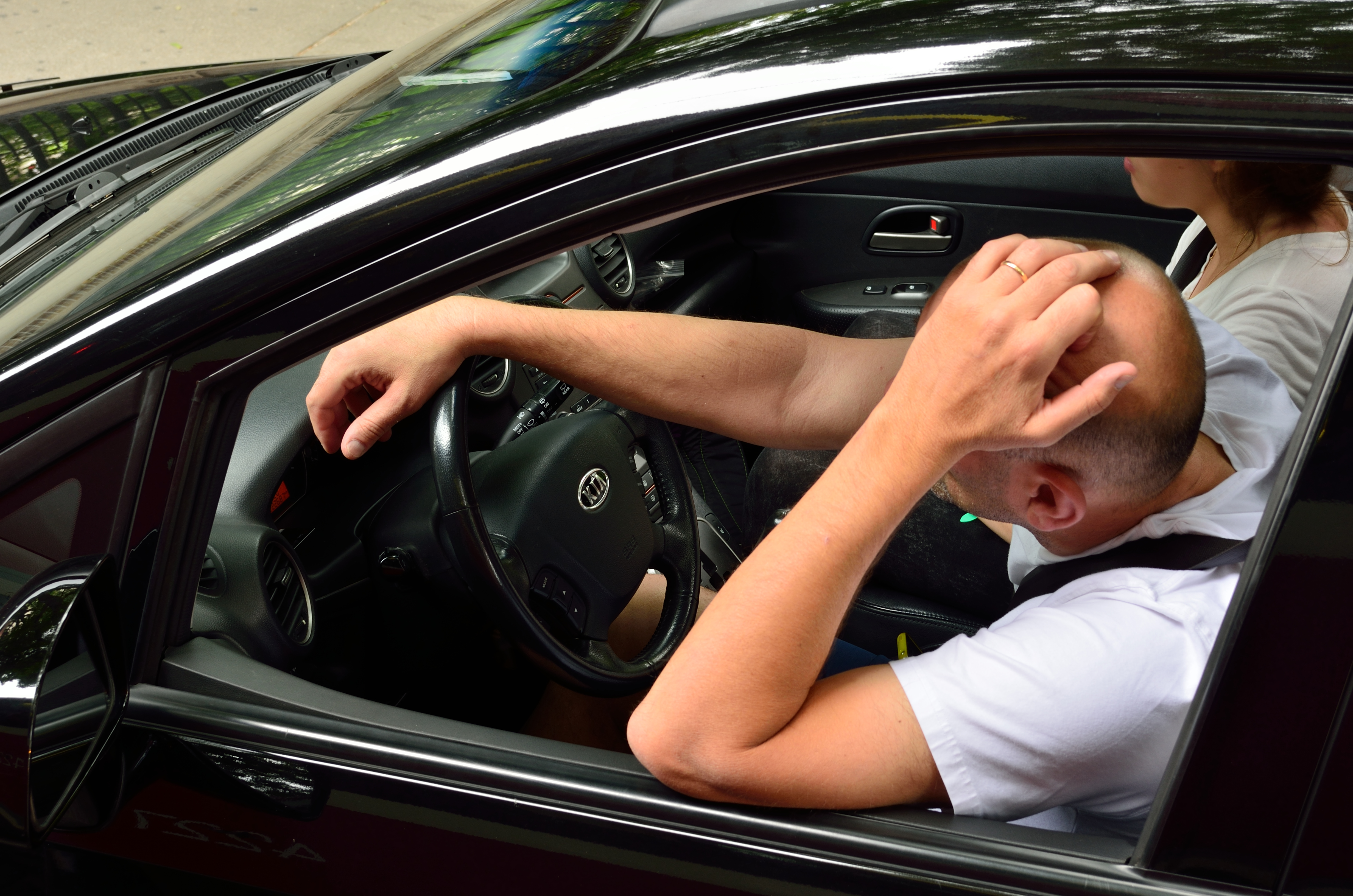 Frustrated by traffic congestion.